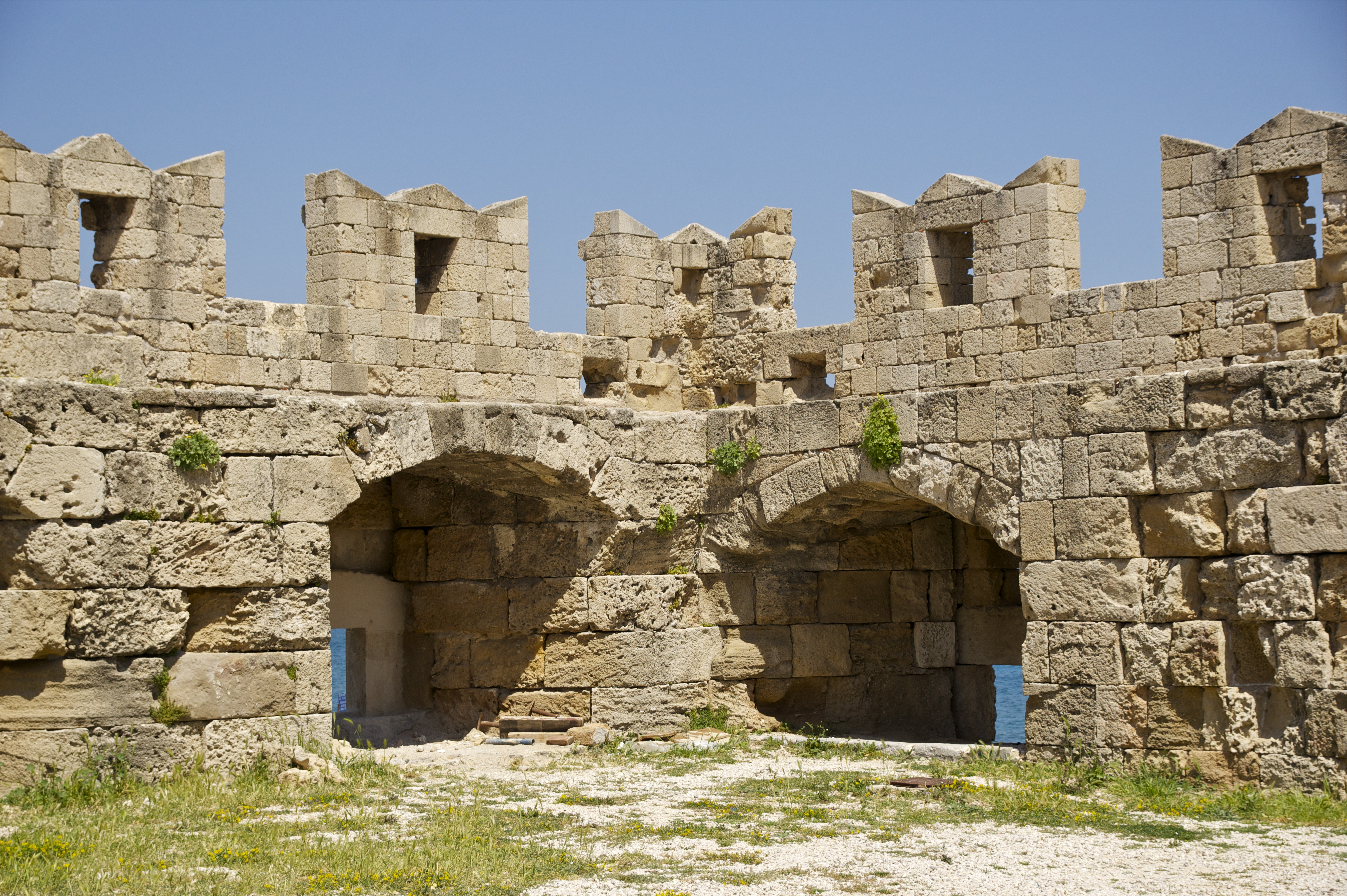 part of the defensive structures of the fortifications of Rhodes, Greece.